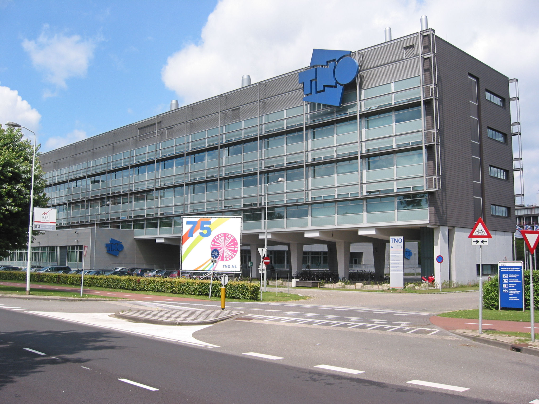 TNO-Eindhoven, The Netherlands